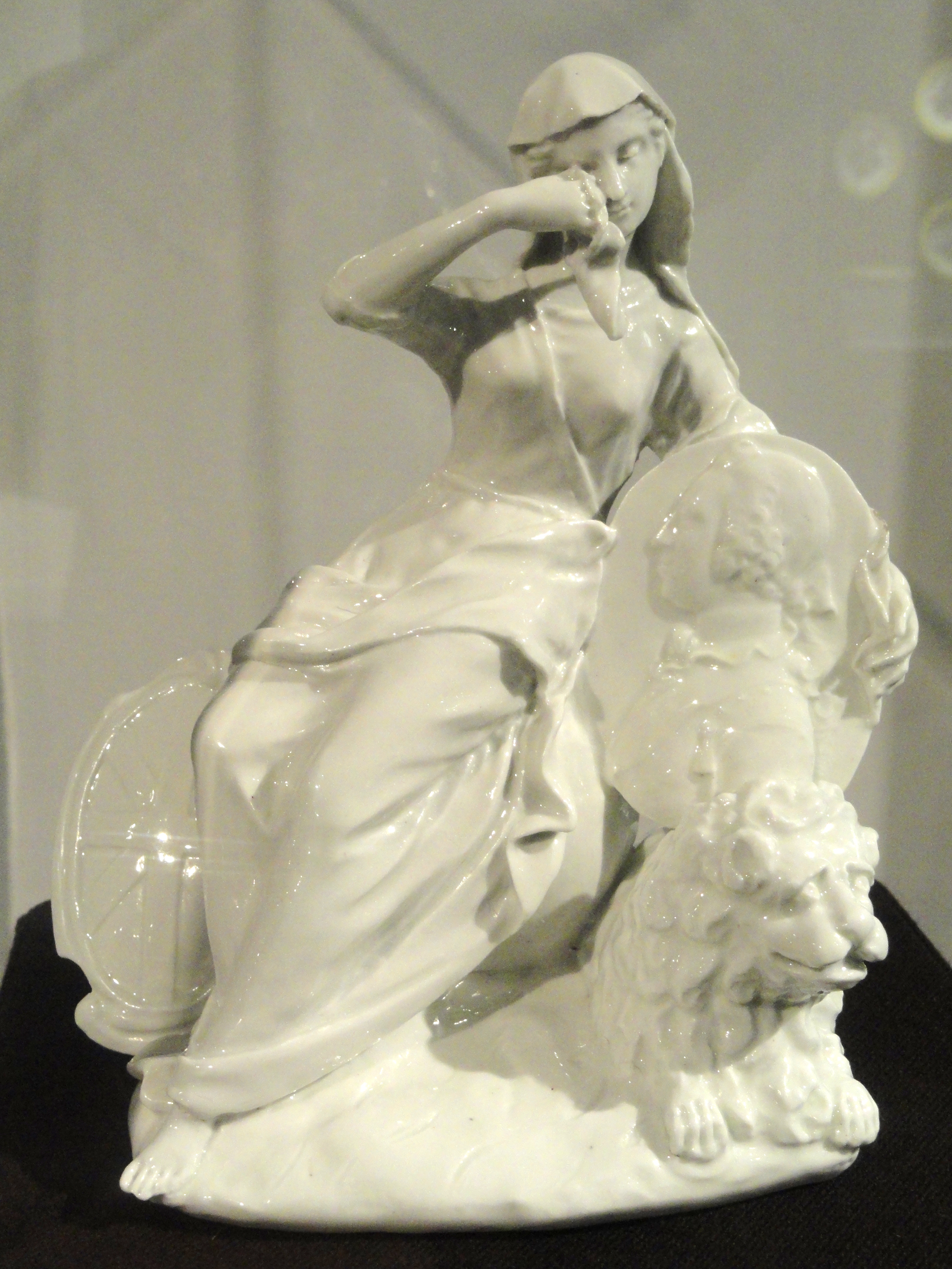 Exhibit in the Gardiner Museum, Toronto, Ontario, Canada. This artwork is in the public domain because the artist died more than 70 years ago.